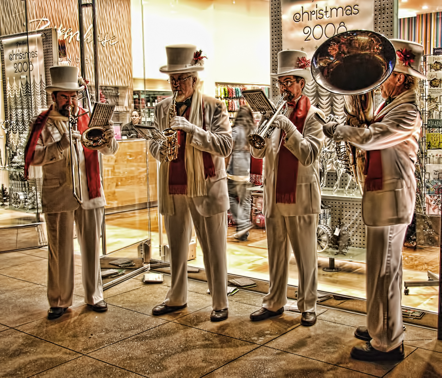 Live Christmas Music at the Americana in Glendale, California